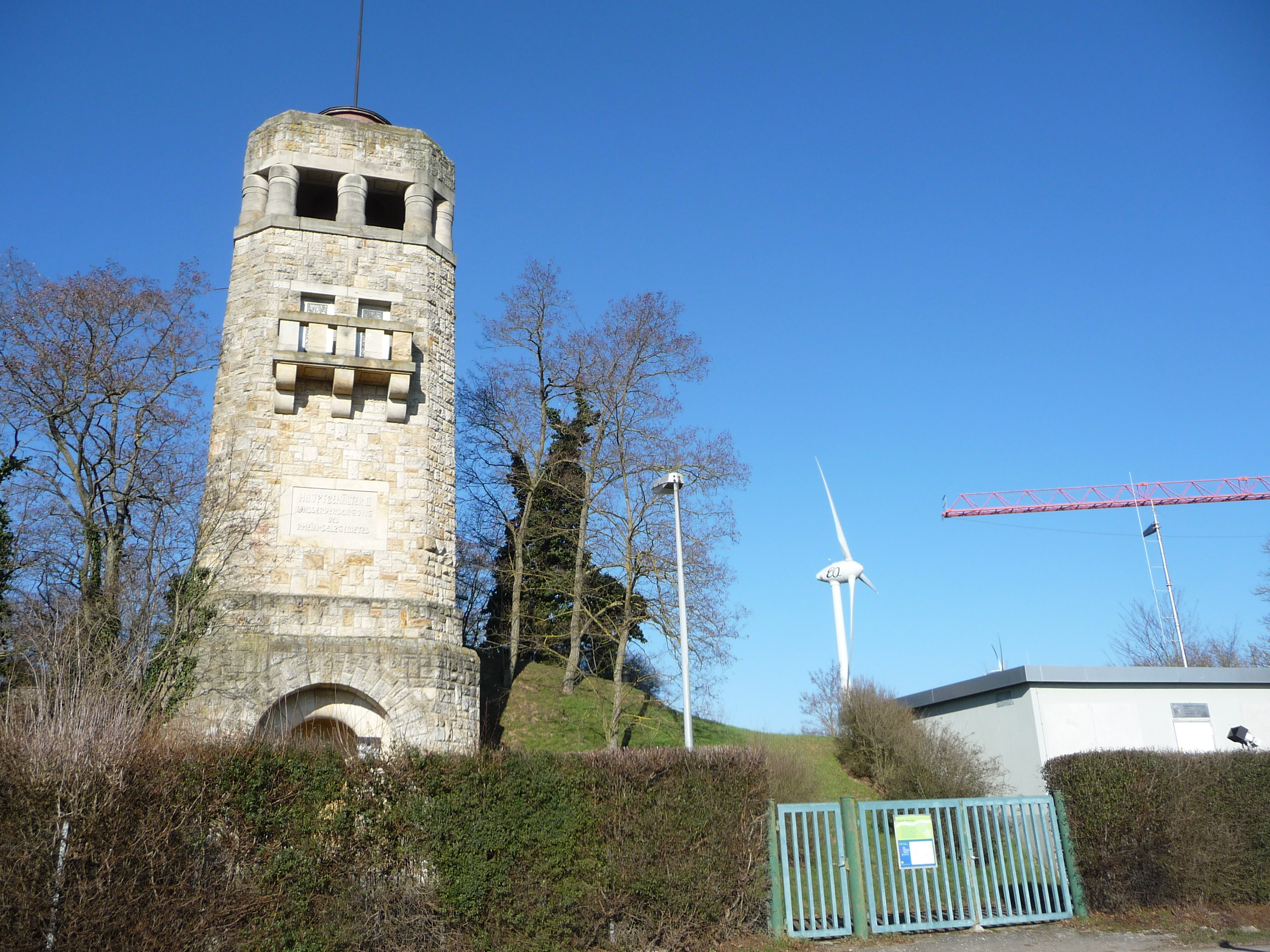 Wintersheim is an Ortsgemeinde – a municipality belonging to a Verbandsgemeinde, a kind of collective municipality – in the Mainz-Bingen district in Rhineland-Palatinate, Germany.